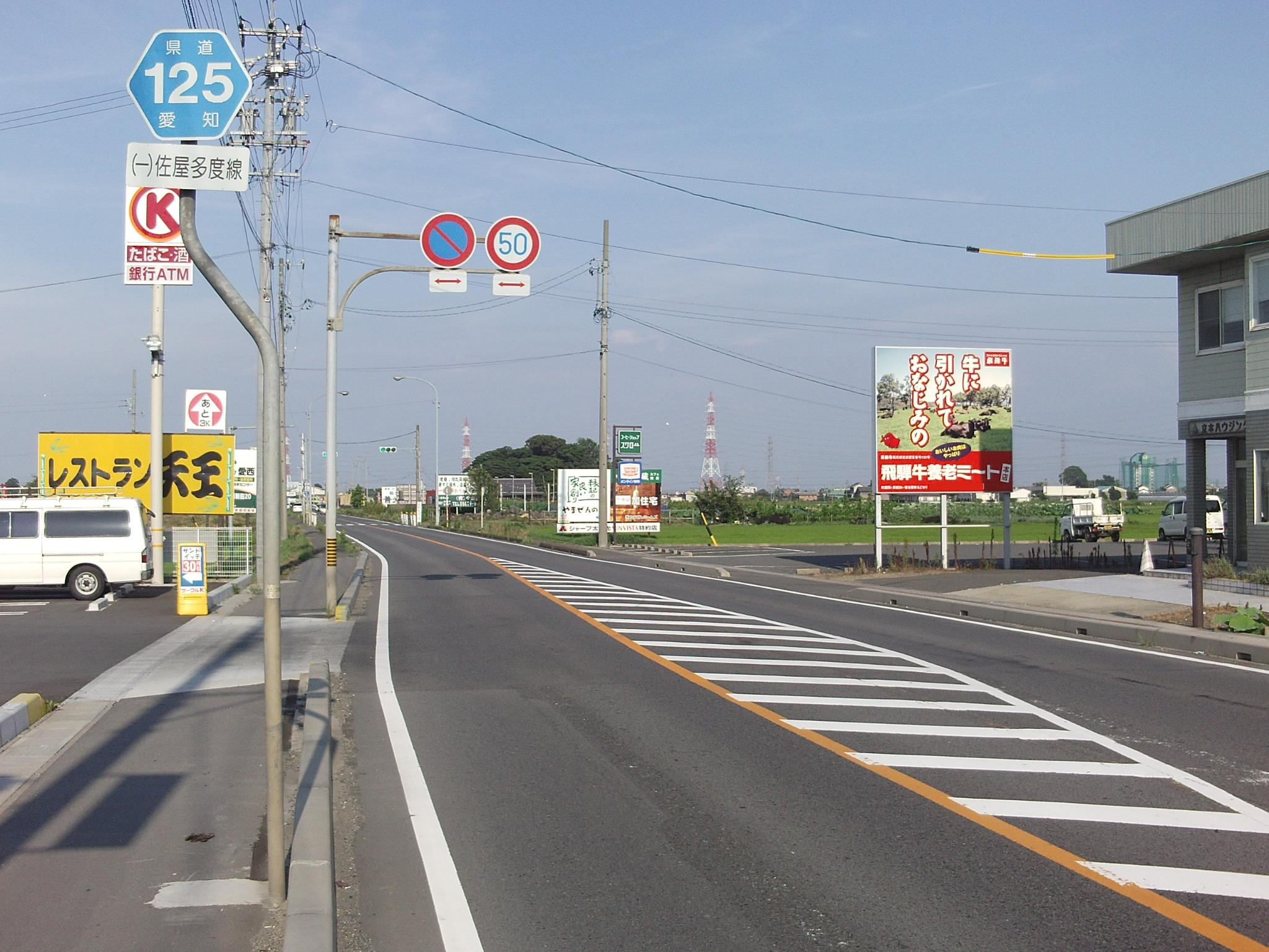 The Aichi Prefectural Road Route 125 in Tatsutacho, Aisai City